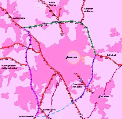 Campinas Ring Road - São Paulo, Brazil.